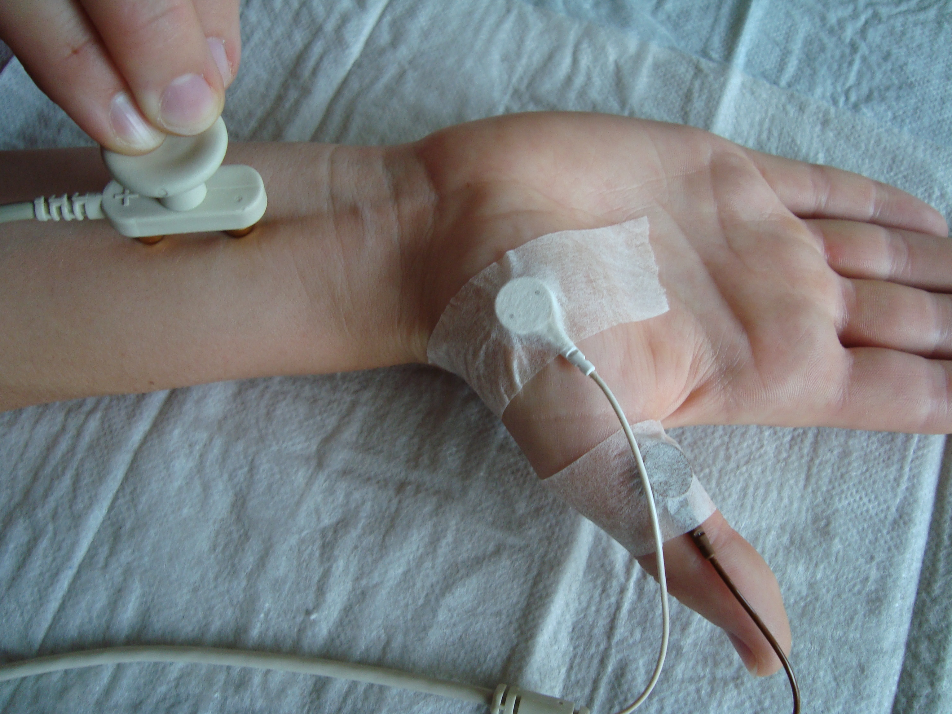 The photo shows the measuring of the nerve conduction velocity ( the speed, in meters per second, at which an impulse moves along the largest fibers of a peripheral nerve. ).